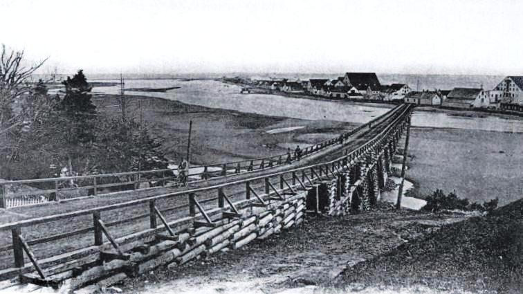 Print (photomechanical), Lagoon bridge, Paspébiac, Gaspé, QC, about 1910, Ink on paper mounted on card - Collotype - 8.4 x 14.1 cm